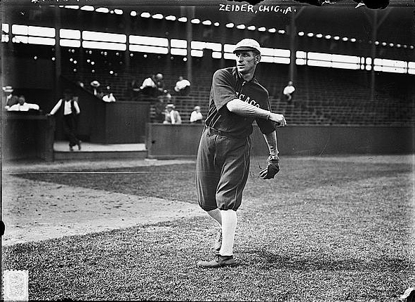 Rollie Zeider (1883-1967), American major league baseball player, is shown here in 1912 when he played for the Chicago White Sox of the American League.